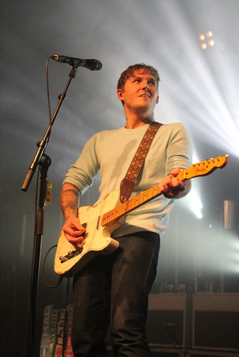 Brian Fallon fronting The Gaslight Anthem, Stuttgart, 13 November 2014